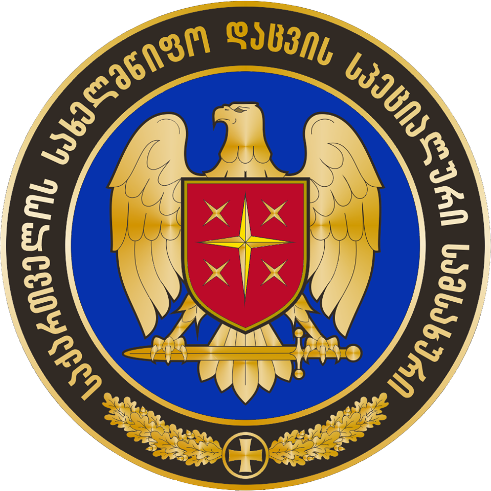 Special State Protection Service Of Georgia logo